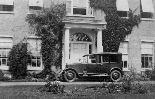 Shortmead House frontage in 1939